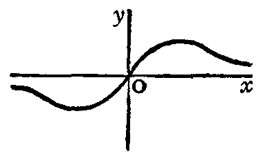 Cartesian x-y graph showing Newton's "serpentine" with the x-axis as asymptote.